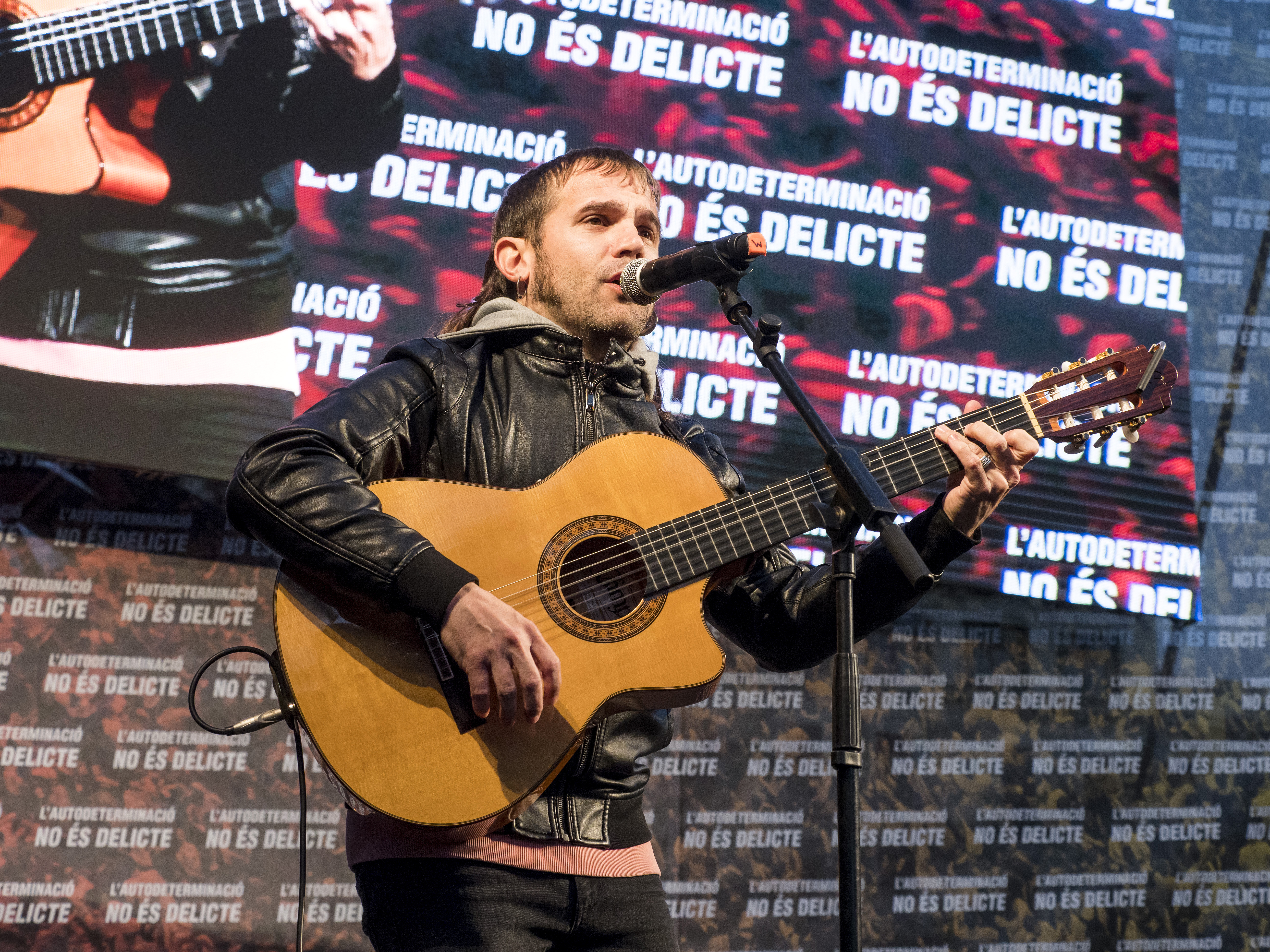 Demonstration: "Self-determination is not a crime"